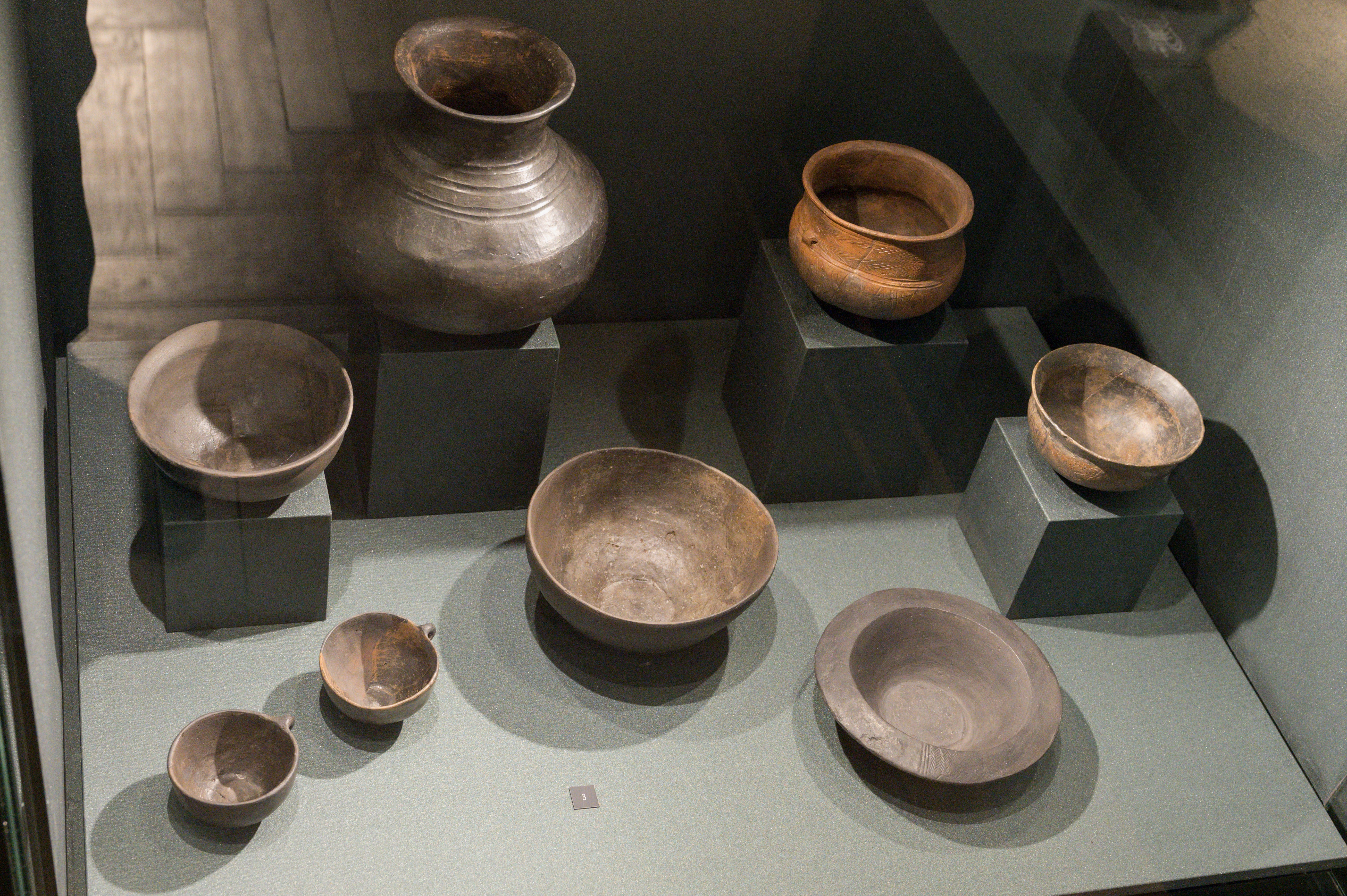 Terminal Bronze Age „tableware“. A collection of ceramic vessels from the Štítary culture, from a settlement pit at Praha Záběhlice. The City of Prague Museum.